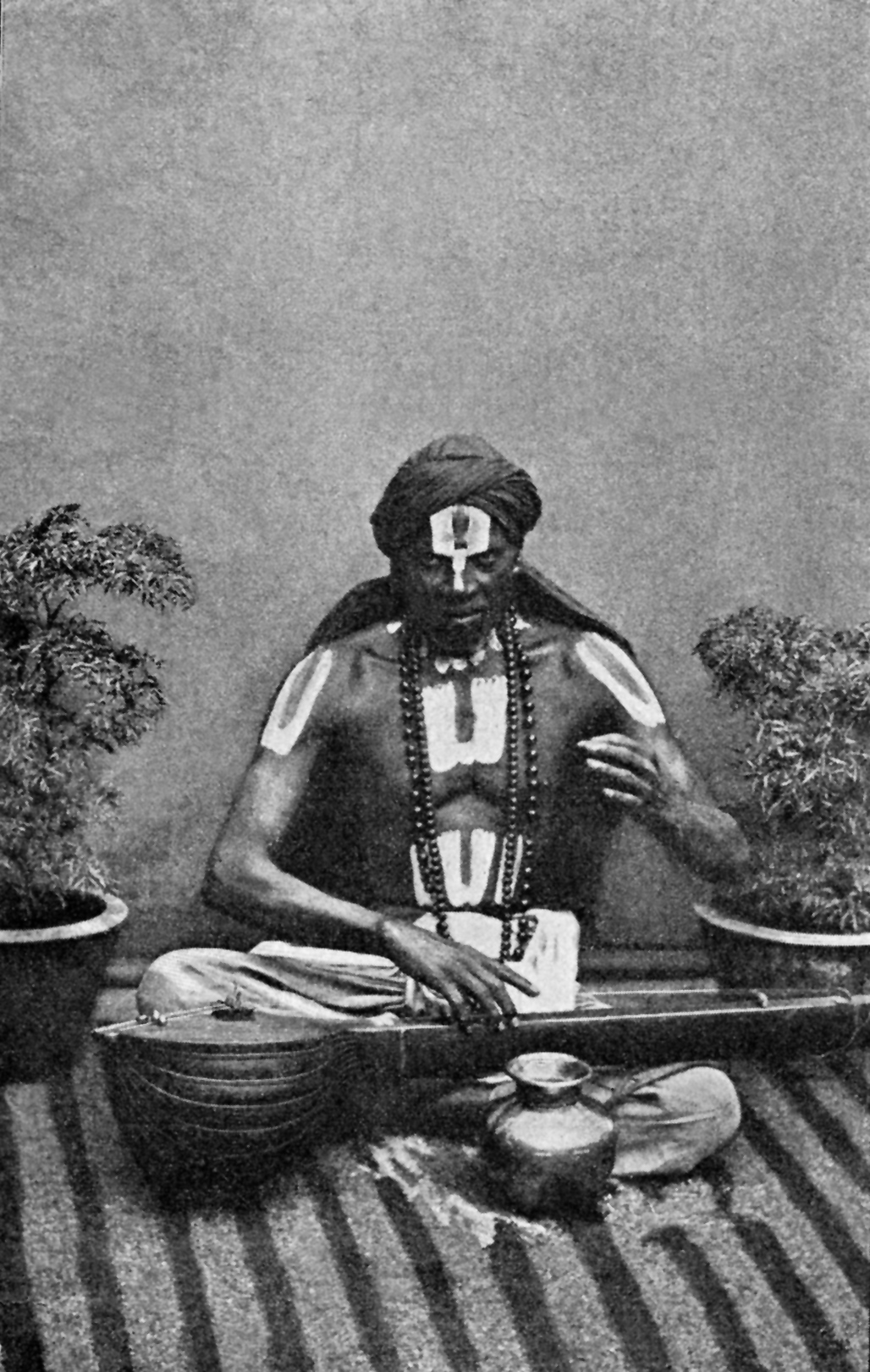 Hindu musician-Vaishnavite